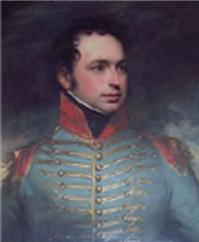 Henry Herbert, 2nd Earl of Carnarvon (1772-1833)